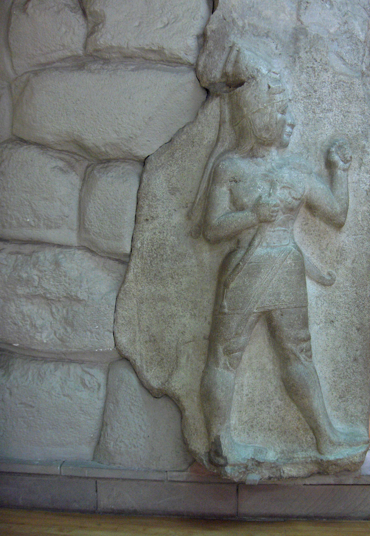 High relief of a warrior god; left side of the King's Gate; height 225 cm; found in Boğazköy (Hattusha; 14th century BC; Museum of Anatolian Civilizations, Ankara, Turkey